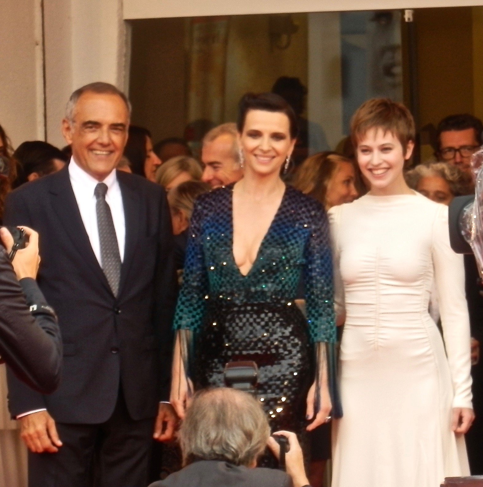 Juliette Binoche, Lou de Laage and Festival director Alberto Barbera during the film premiere in Venice in 2015